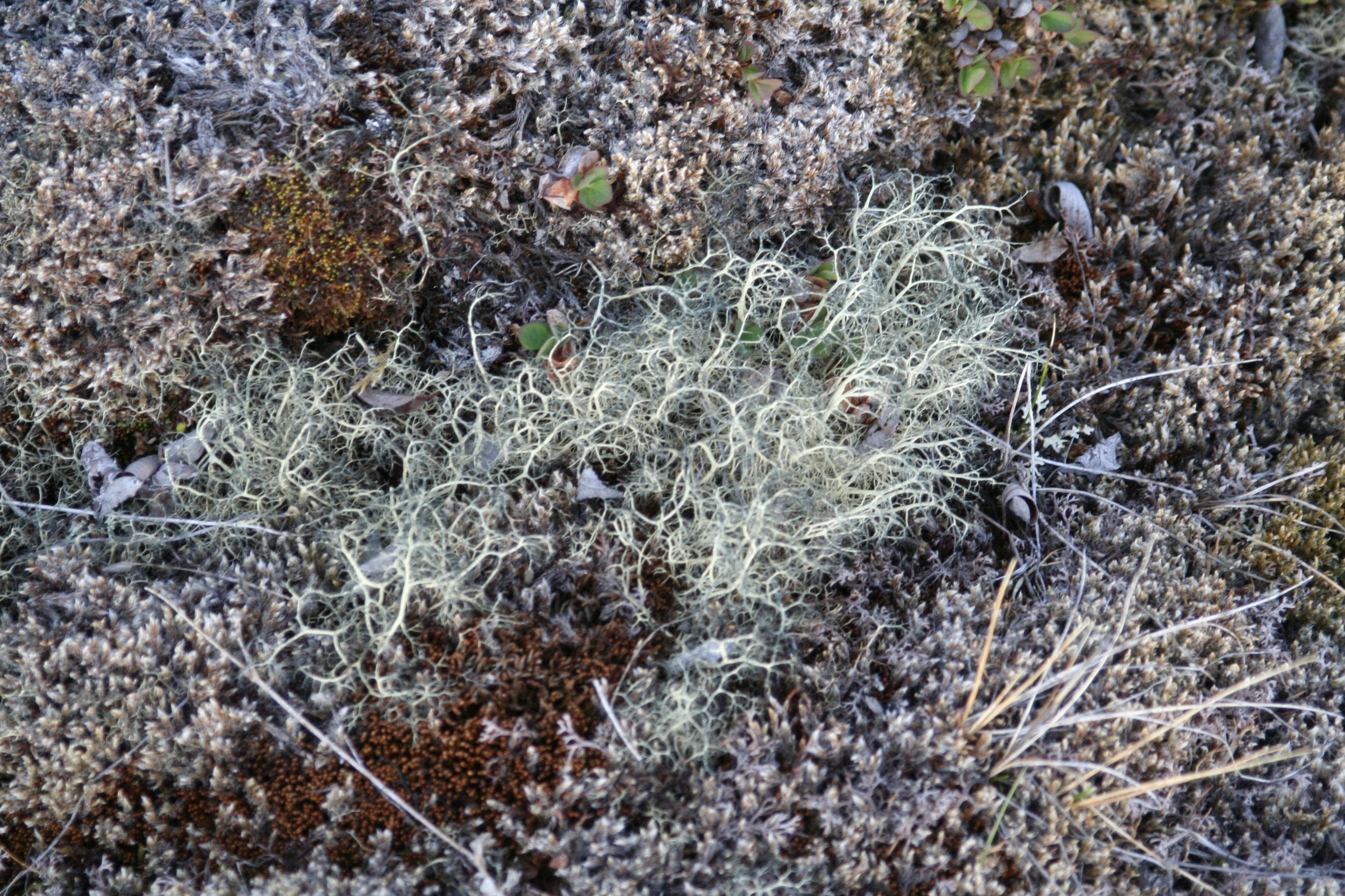 Pangnirtung tundra, during the brief summer, when the top couple of dozen centimeters have thawed.